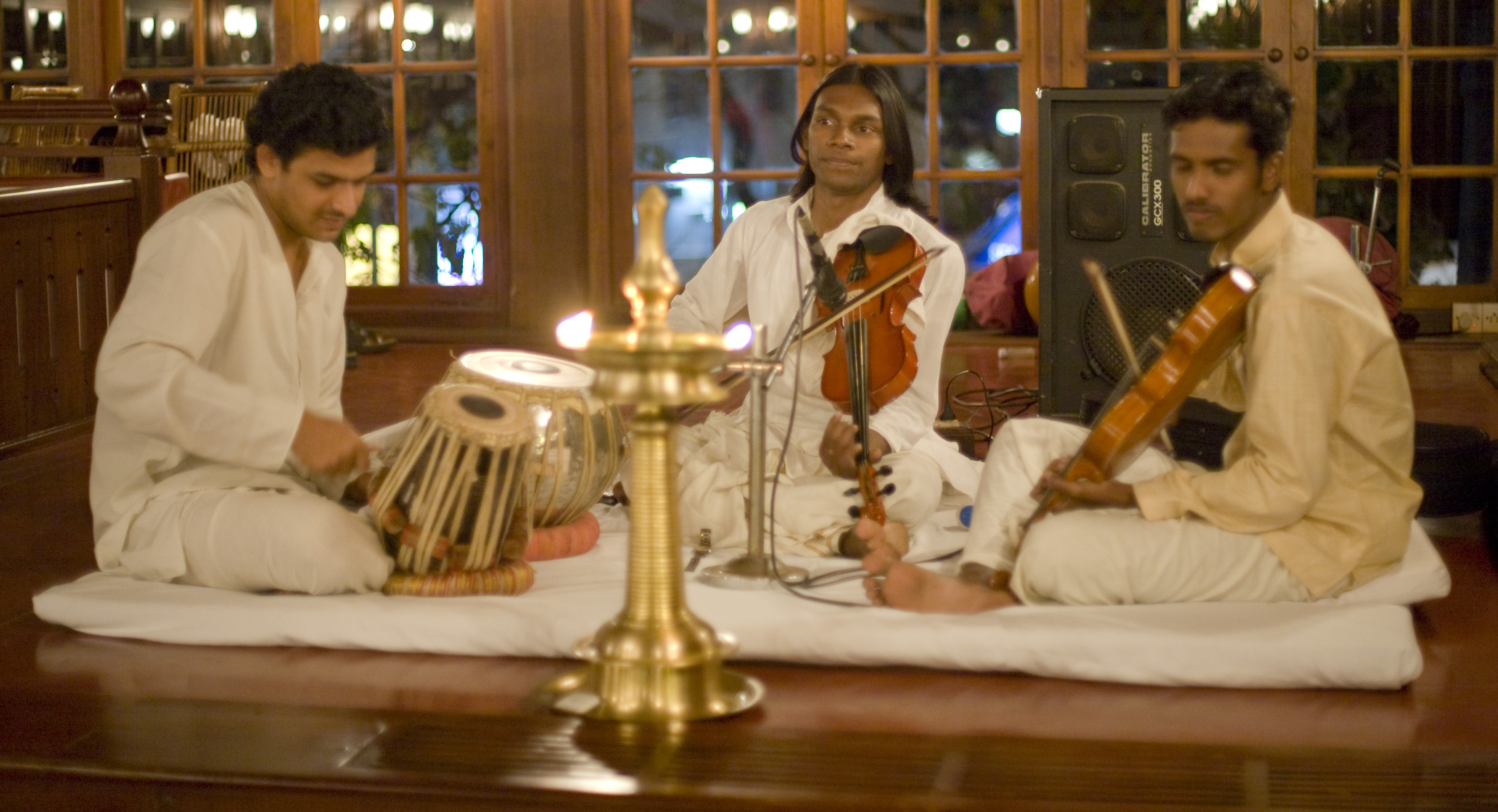 A percussionist and two violinists playing carnatic music (the scroll of the instrument rests on the foot).